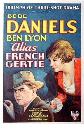 Poster for the 1931 film Alias French Gertie